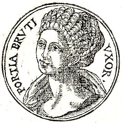 Portia Catonis was a Roman woman who lived in the 1st century BC. She was the daughter of Marcus Porcius Cato Uticensis and his first wife Atilia.